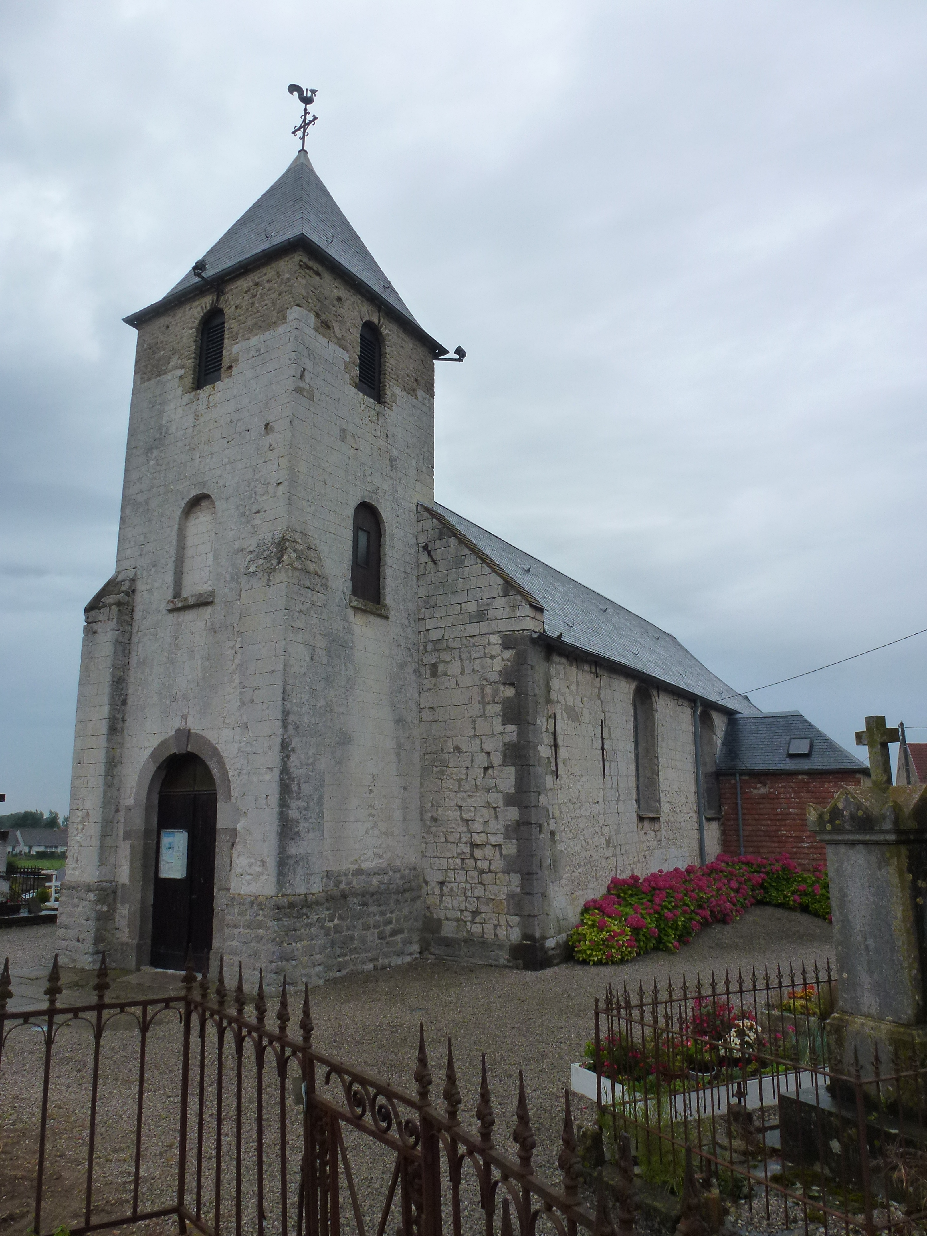 Hames-Boucres (Pas-de-Calais) église